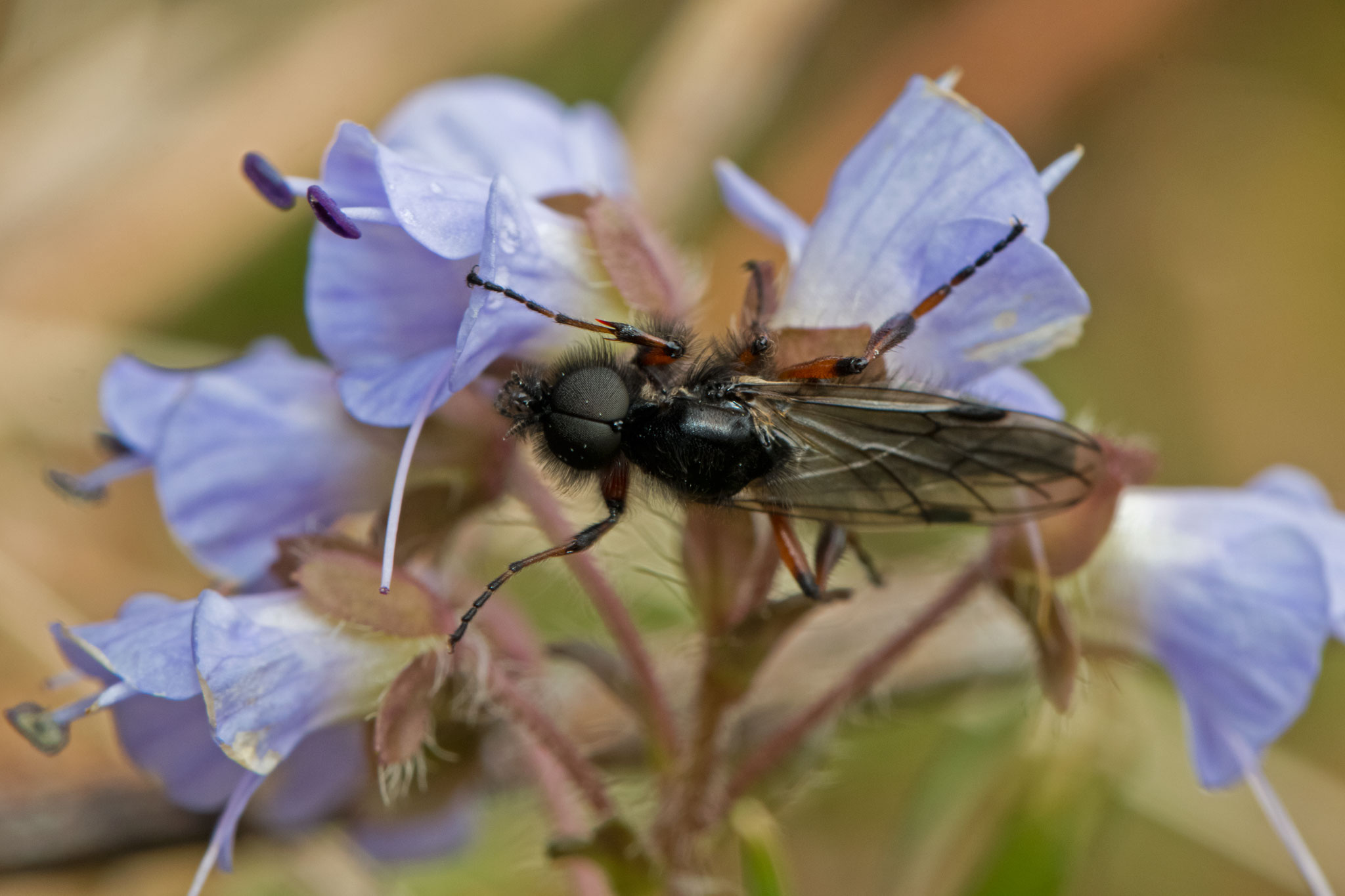 March fly (Bibio xanthopus) on snow queen (Syntheris reniformis) You are free to use this image with the following photo credit: Peter Pearsall/USFWS